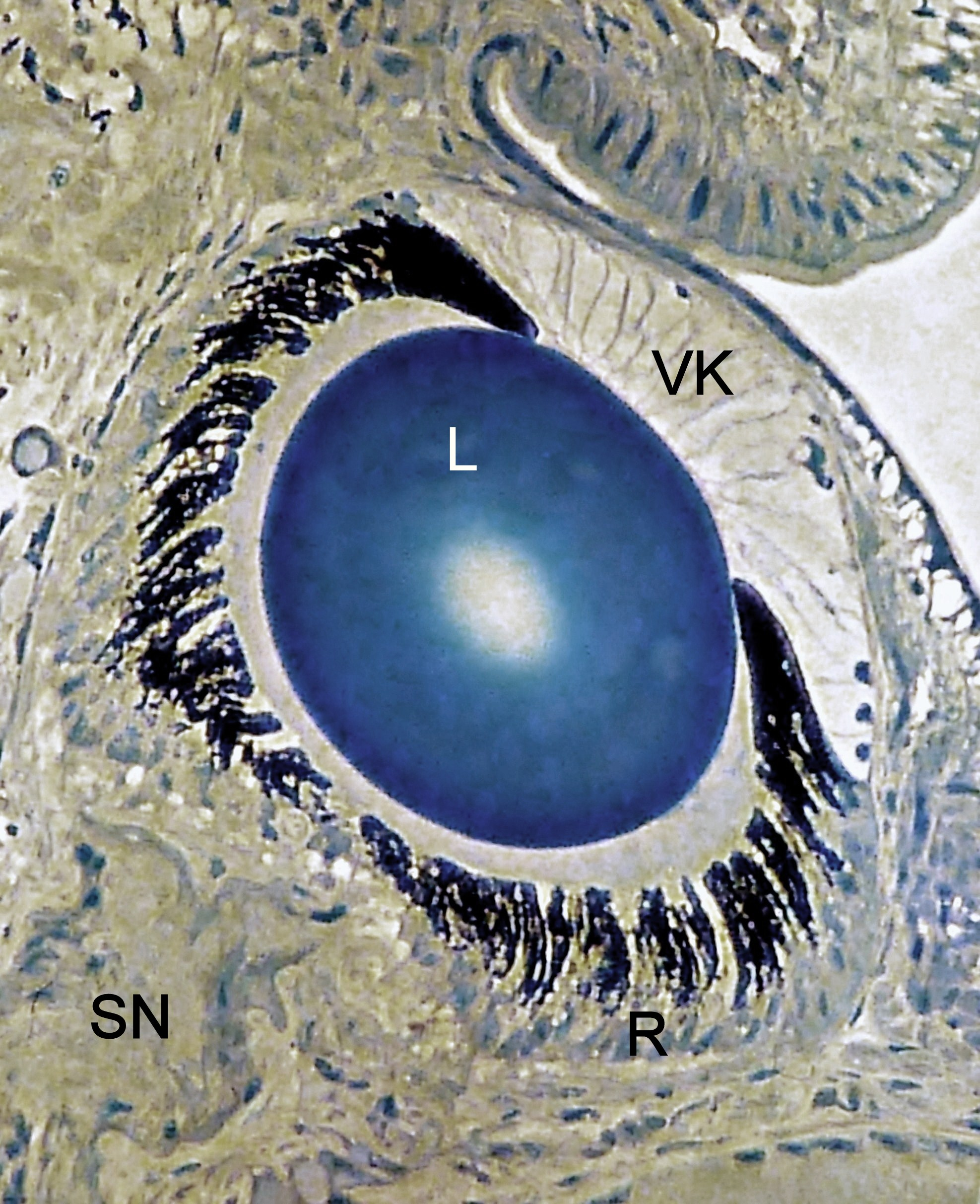 Semi thin section of the eye of Helix pomatia. VK anterior eye chamber, L lens in the posterior eye chamber, R retina consisting of photoreceptor cells and pigment cells. SN optical nerve. Toluidine blue, phase contrast.